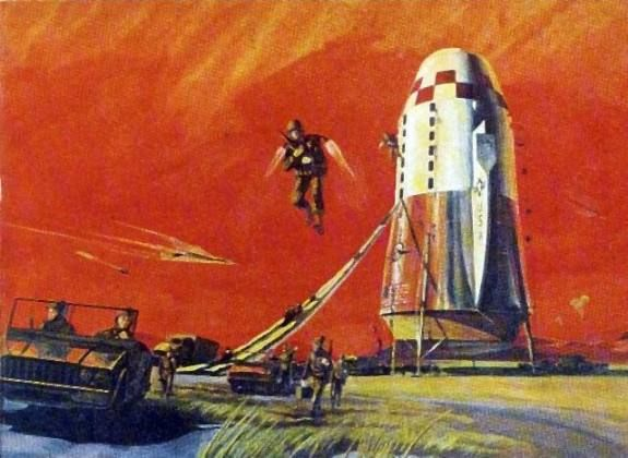 Ithacus vehicle during an assault